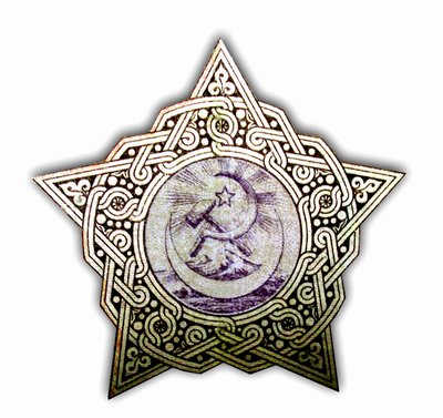 Coat of Arms of the Transcaucasian SFSR